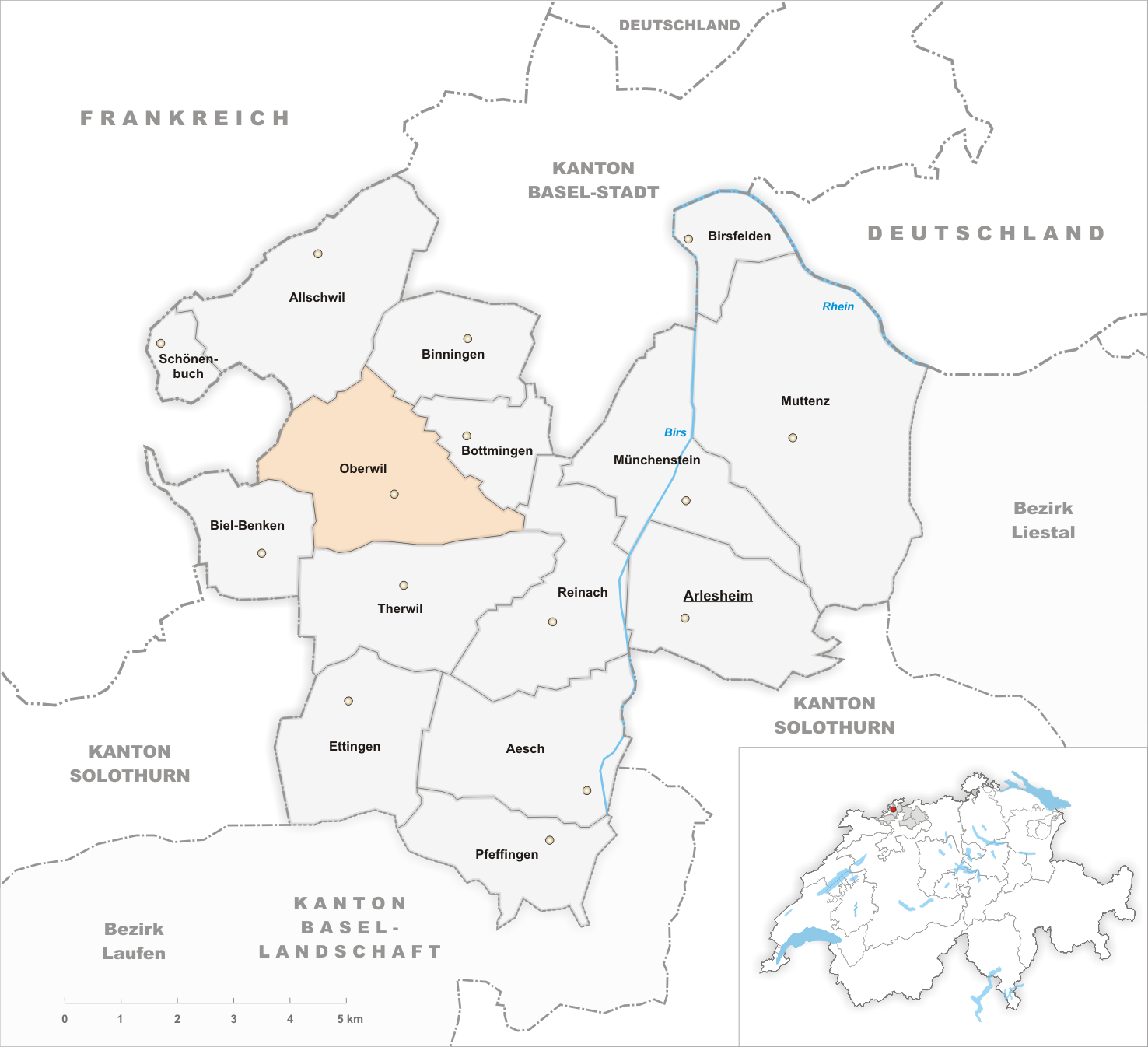 Municipality Oberwil